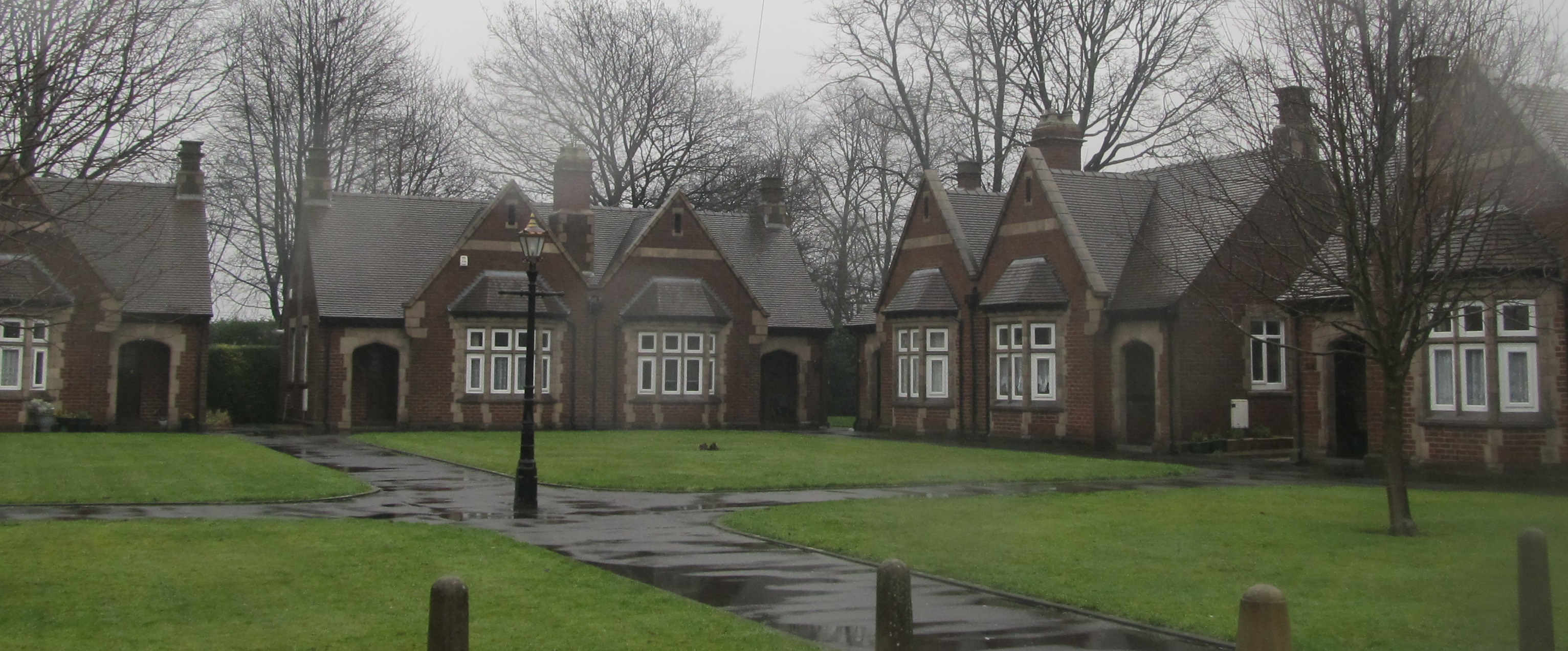 Akrill Almshouses, West Bromwich